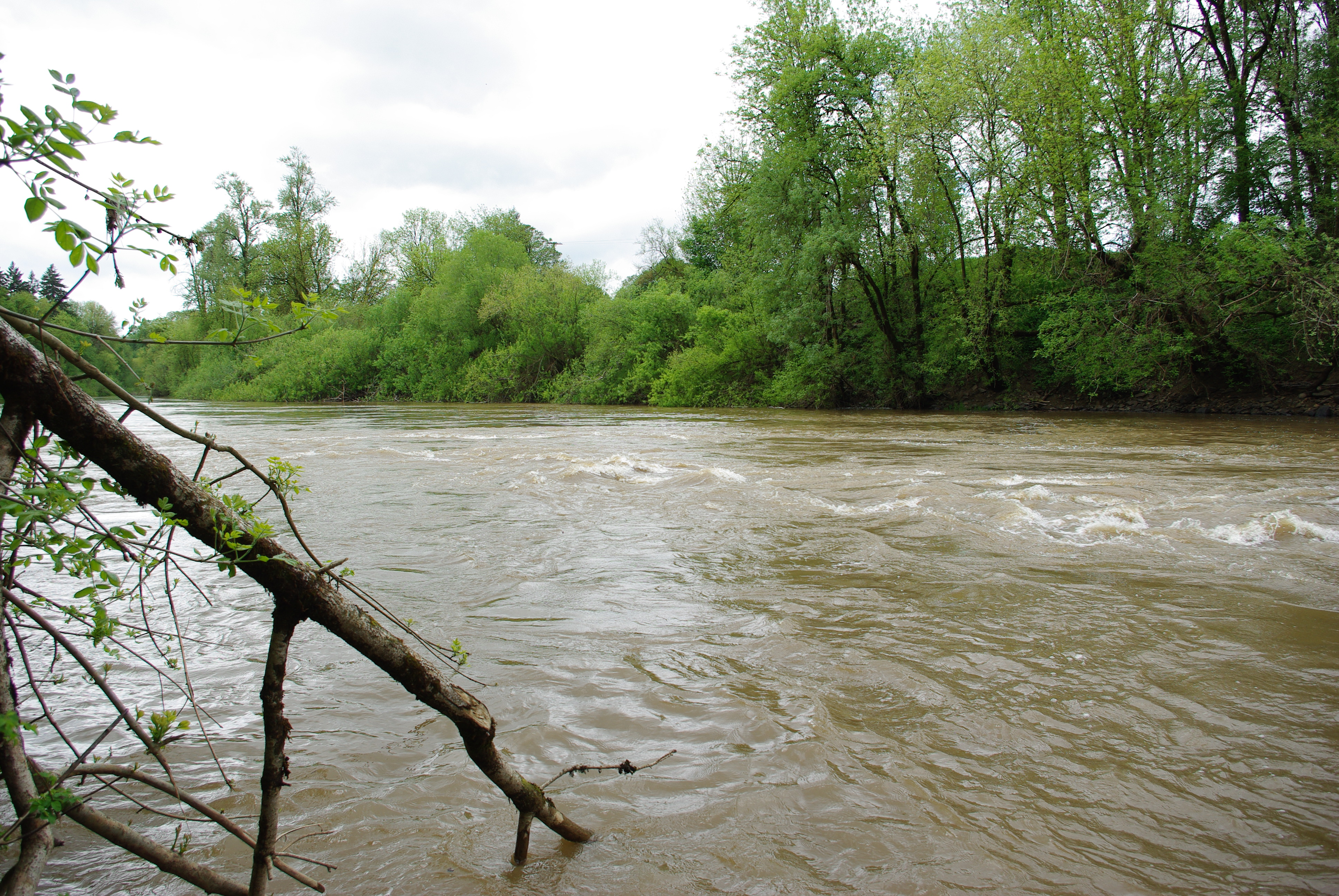 Yamhill River, Oregon, USA